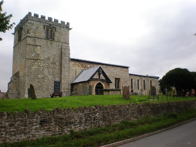 All Hallows Church, Goodmanham, East Riding of Yorkshire, England.The church of All Hallows at Goodmanham stands in an elevated position and is characterised by its stubby tower and walls some 3 feet thick. It dates back to 1130, with numerous additions and alterations ensuing until the 16th century, and is said to have been built on the site of a pagan temple.